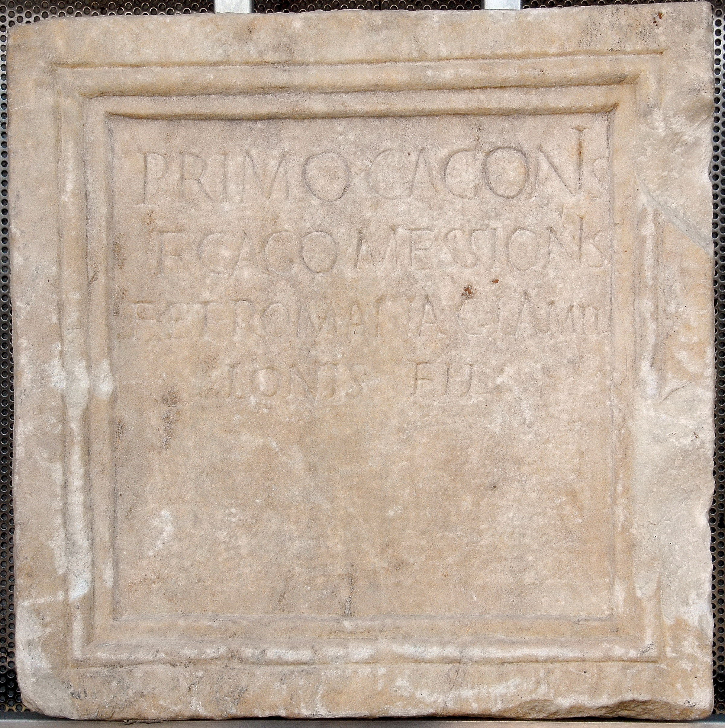 Roman grave inscription at the municipal office in Sankt Margareten im Rosental, municipality Sankt Margareten im Rosental, district Klagenfurt Land, Carinthia, Austria, EU